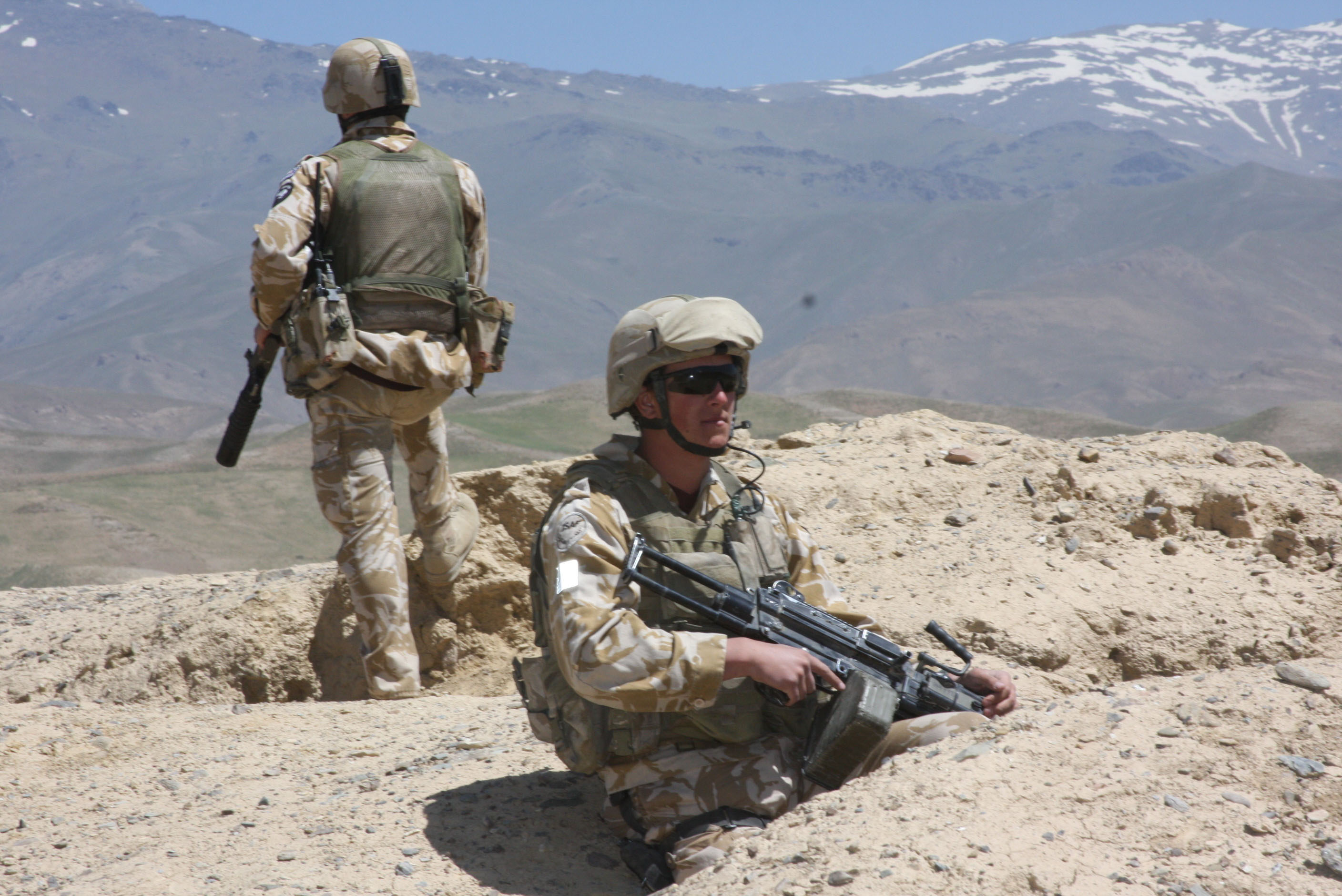 BAGRAM AIR FIELD, Afghanistan?Two members of the New Zealand Provincial Reconstruction Team provide security in Shebar district, Bamyan province, July 23. In addition to security, New Zealand Defense Force TG Crib 14 works closely with government officials to tailor development programs in Bamyan. (Photo by U.S. Army 1st Lt. Lory Stevens, Task Force Warrior Public Affairs Office)